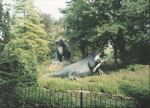 The Crystal Palace: Monsters: Inguanodons (1998)